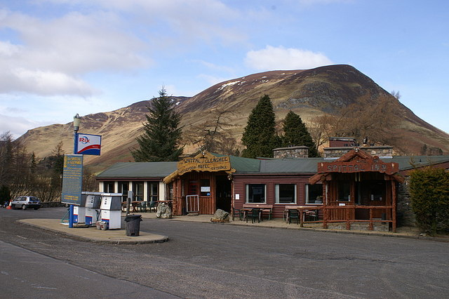 Spittal of Glenshee Hotel I suspect the ancient petrol pumps are no longer in use - certainly one was in pieces. Ben Gulabin dominates the background.